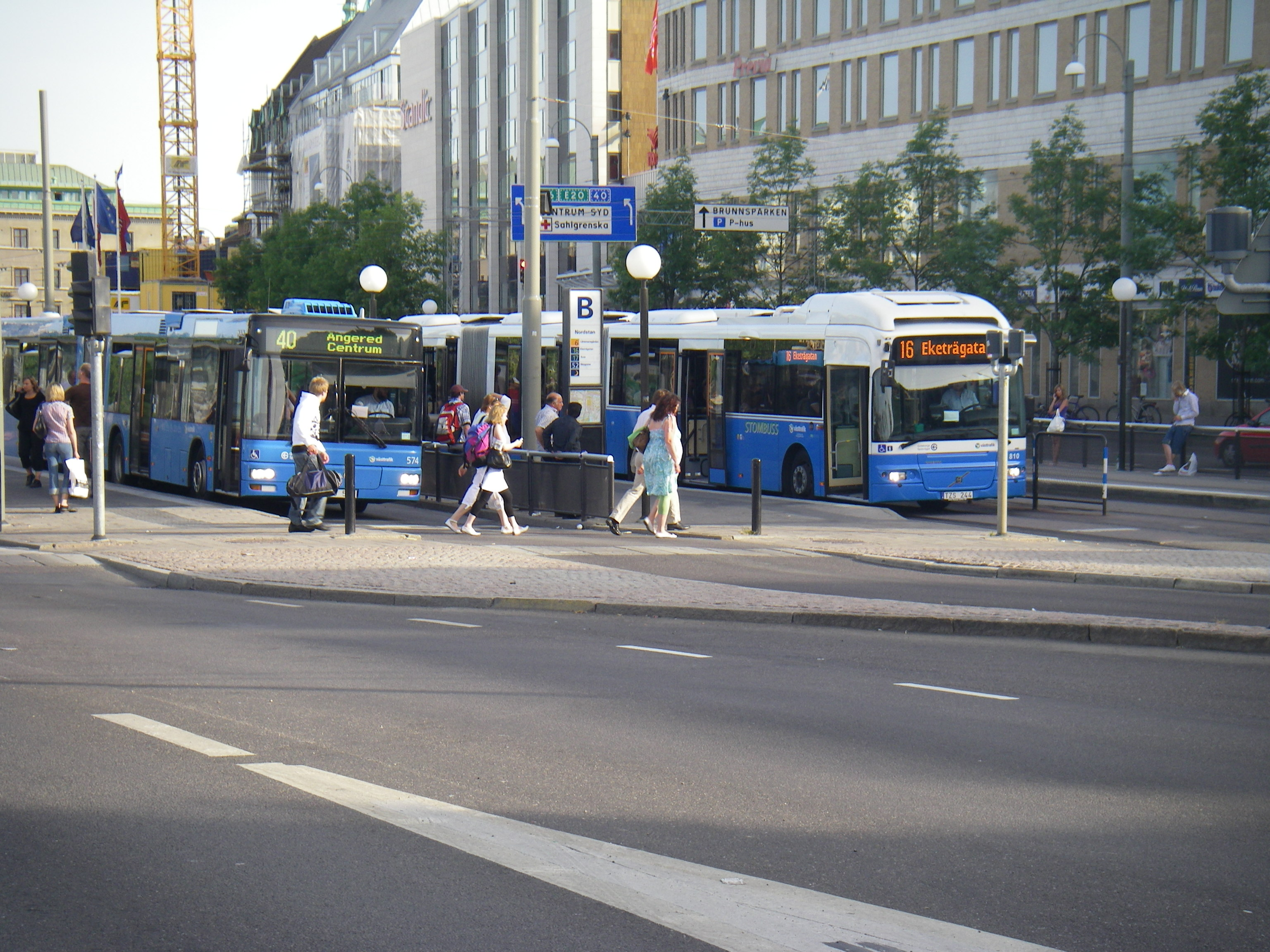 Buses in Gothenburg, Sweden. From left to right: MAN NG 313 (#574, built 2004) and Volvo 7500 Bi-articulated with Volvo B9S chassis (reg. TZS 244, #810, built 2007).